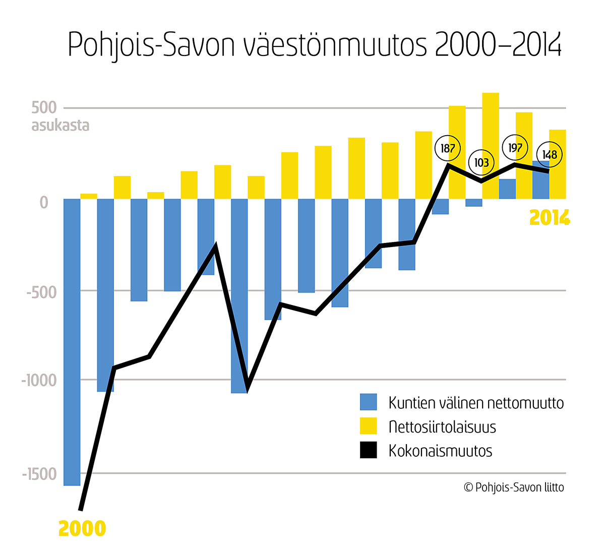 Population development in Pohjois-Savon Region 2000-2014